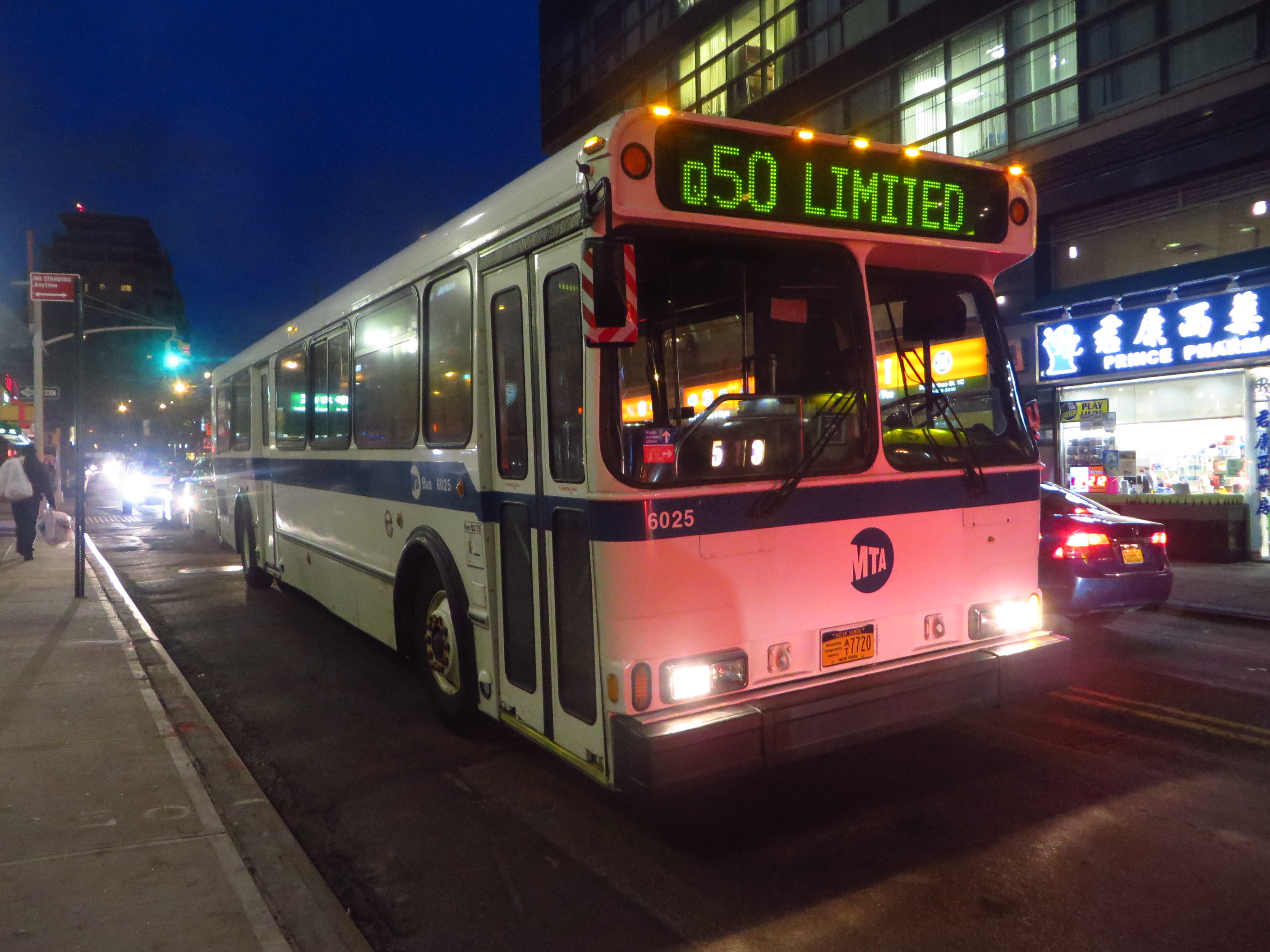 MTA Bus Company 1999 Orion V 05.501 #6025 operates on the Q50 Limited bus route, pictured at Roosevelt Avenue and Prince Street in Flushing, Queens. As of September 2016, this is one of the only two Orion V buses in service with the MTA (the other is #6333).